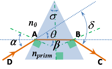 Prism parameters.